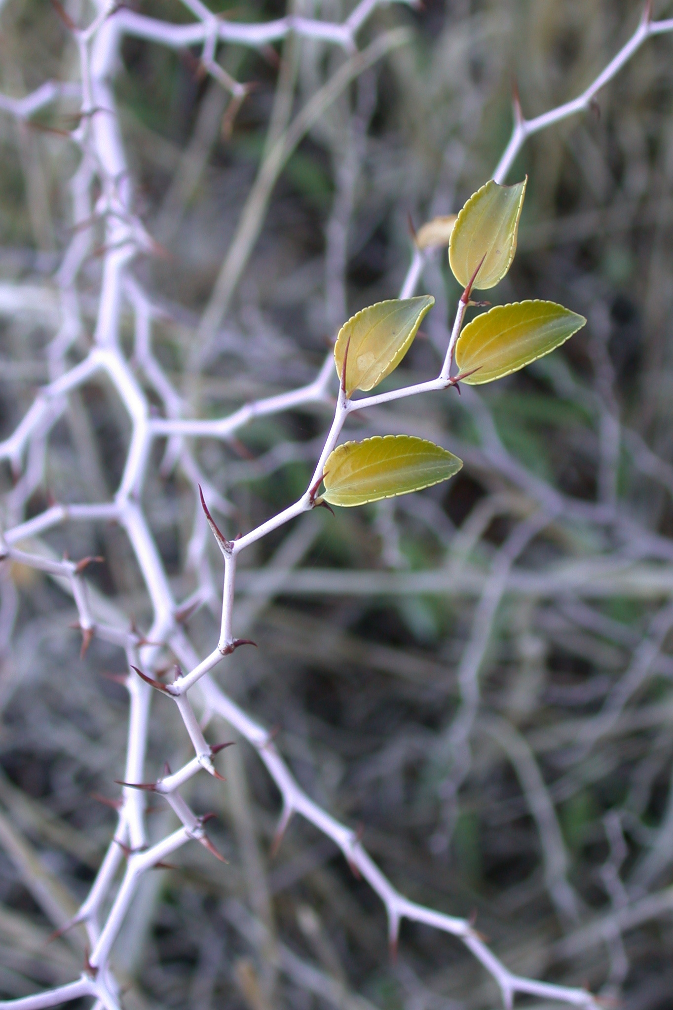 Ziziphus lotus (L.) Lam., detail, Mevo Hama, Golan Heights, Syria, November 8, 2006.